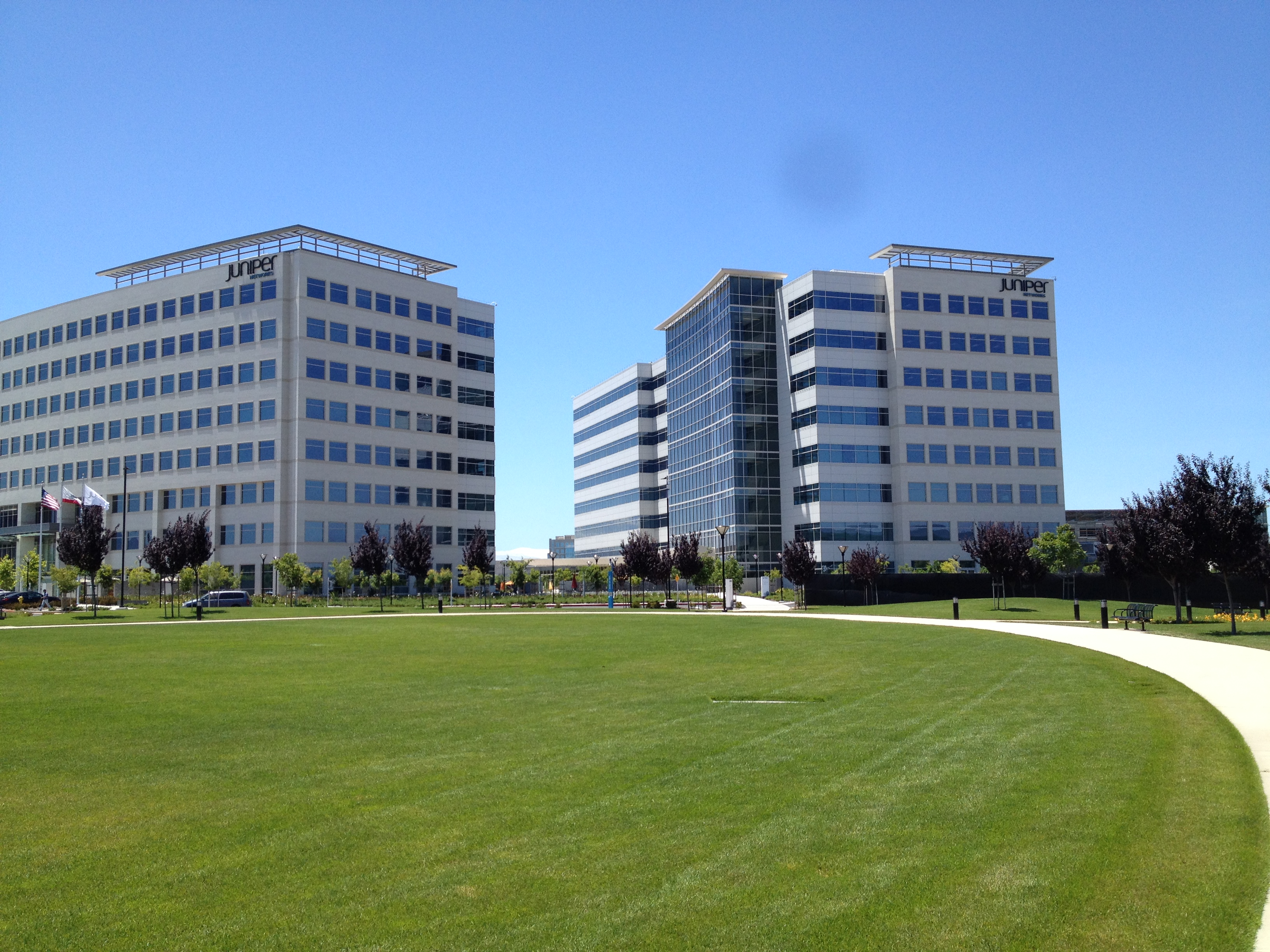 Juniper Networks headquarters